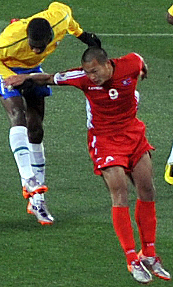 Jong Tae-Se at the match of North Korea against Brazil at the 2010 FIFA World Cup in Ellis Park Stadium, Johannesburg